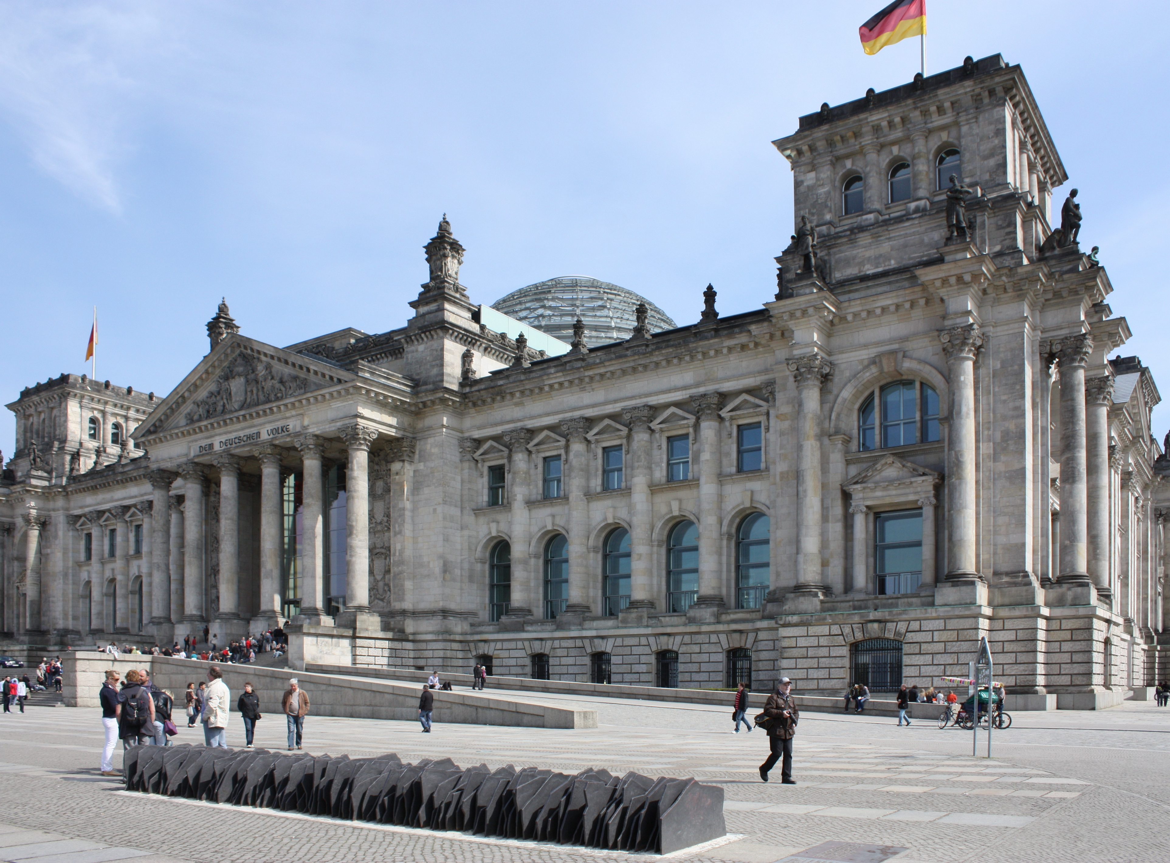 Memorial in front of the Reichstag building in Berlin. Each slate plate is dedicated to one of the 96 members of the German Parliament executed by the Nazis between 1933 and 1945.